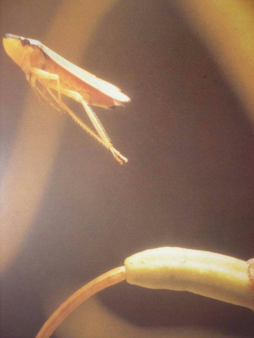 Patuljasti cvrčak